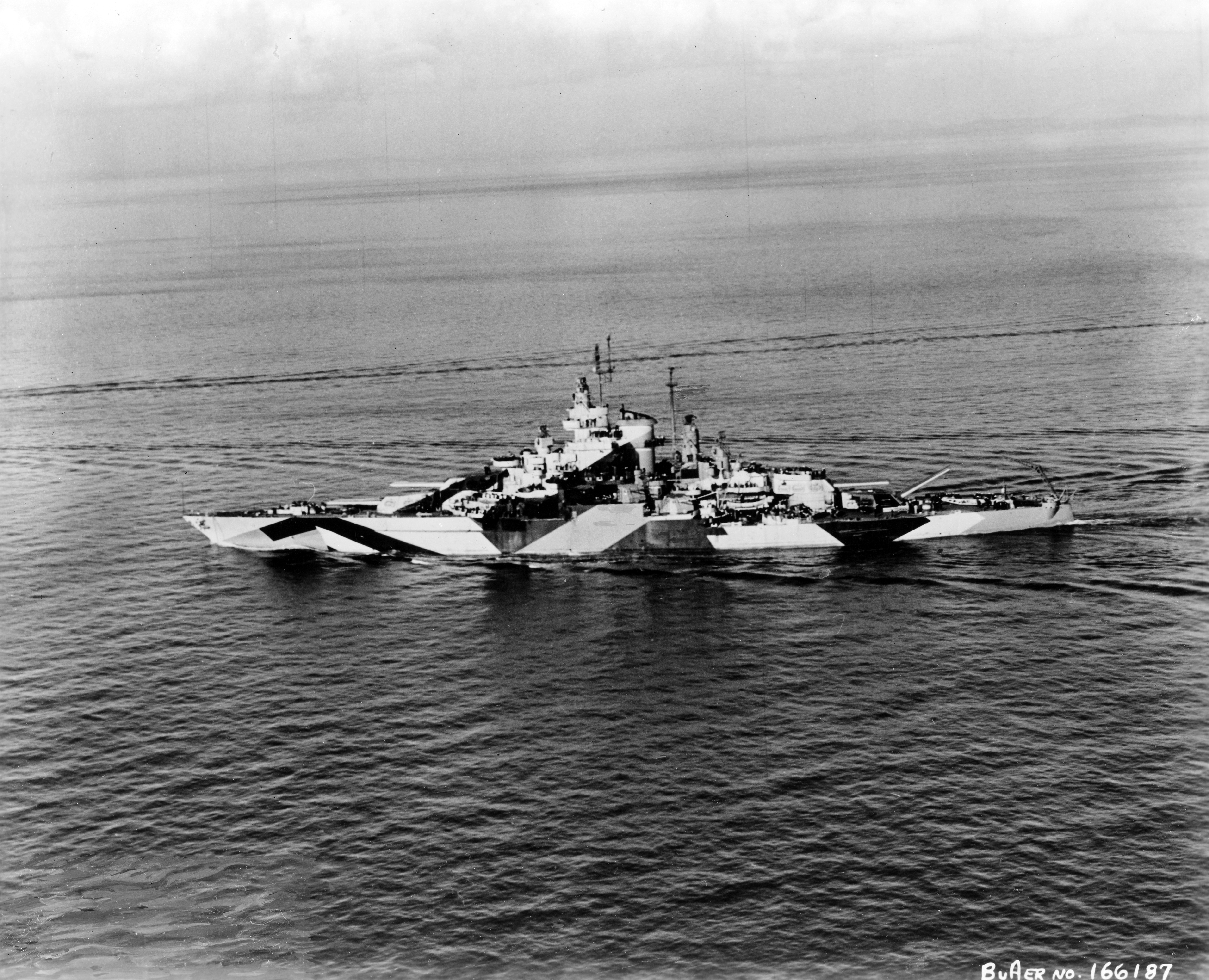 Underway, probably in the Puget Sound area, circa January 1944. The ship is painted in camouflage Measure 32, Design 16-D. Official U.S. Navy Photograph, now in the collections of the National Archives.